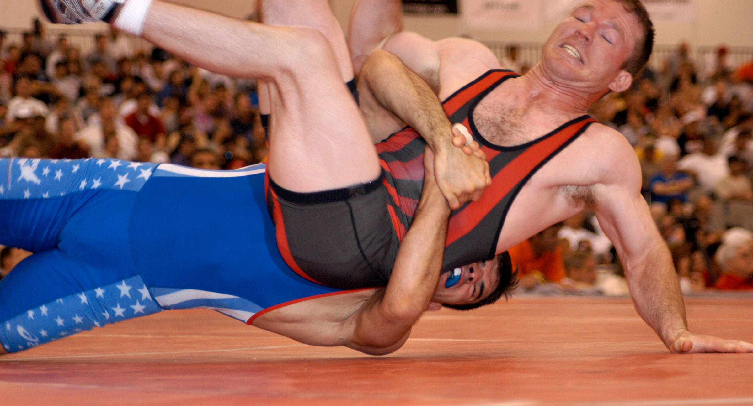 April 13, 2004 Pfc. Faruk Sahin, a member of the U.S. Army World Class Athlete Program at Fort Carson, Colo., throws Sgt. Oscar Wood during a battle of WCAP Soldiers for the 145.5-pound Greco-Roman crown in the 2004 U.S. National Wrestling Championships at Las Vegas Convention Center. Sahin won the match 4-0, April 10, earning a berth in the best-of-three championship series in the 2004 U.S. Olympic Wrestling Team Trials May 21-23 at Indianapolis.